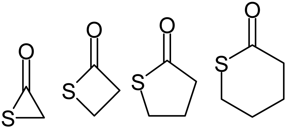 Different types of thiolactones (alpha, beta, gamma, delta)